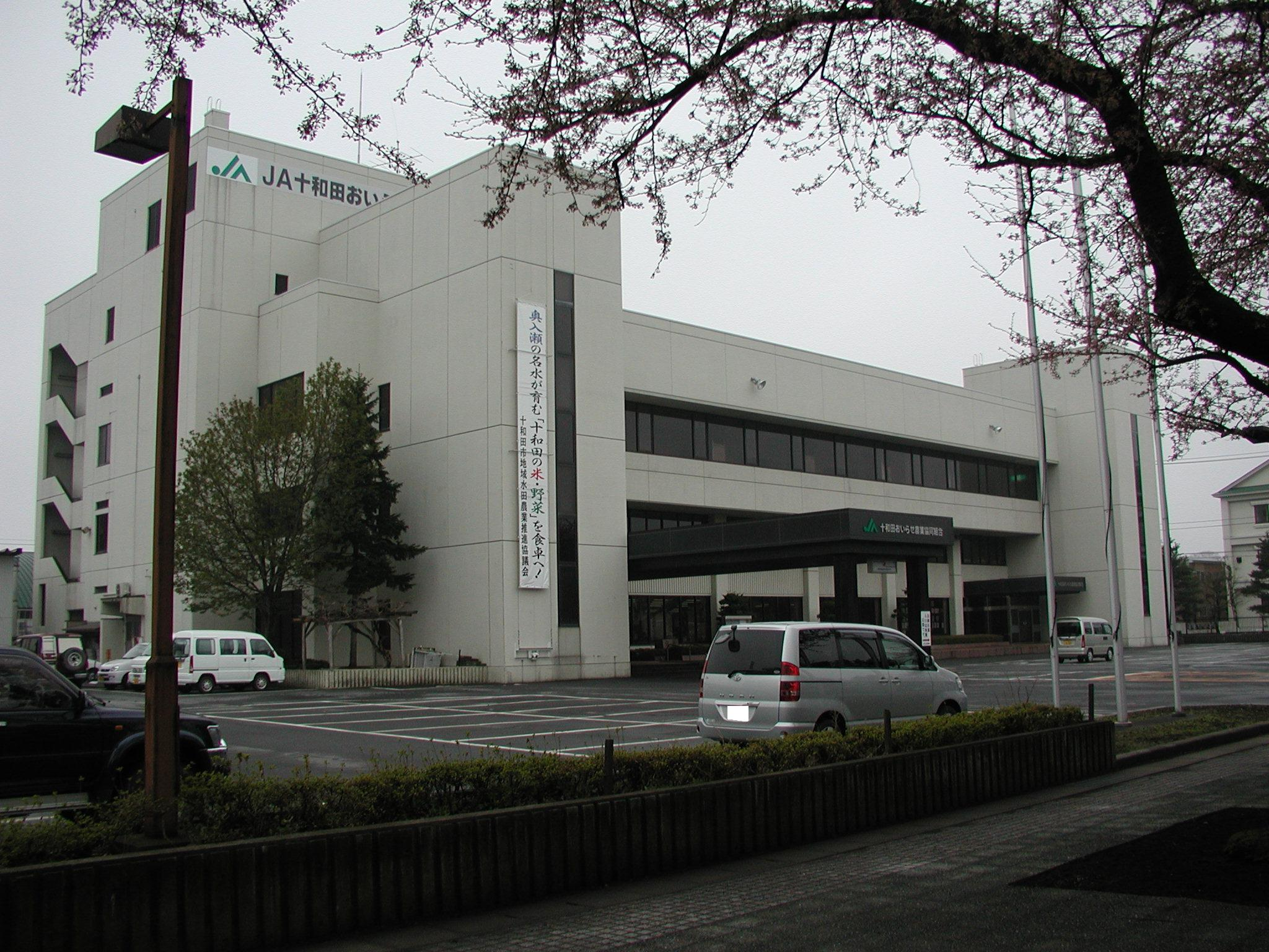 Towada-Oirase Agricultural Cooperatives Head Shop